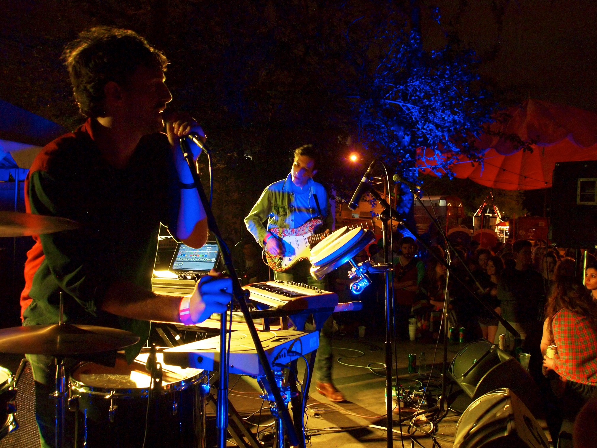 Brooklyn, New York based electronic/dance group Tanlines performing at South by Southwest on March 18, 2012.